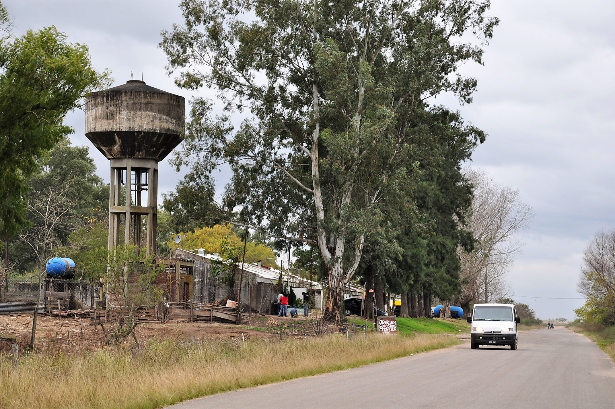 The former National Road No.12 (now called the Caminera a Ibicuy) passing through the hamlet at the Brazo Largo railway station, some 8 km west of the real village of Brazo Largo (municipality of Villa Paranacito, Islas del Ibicuy department, Entre Ríos province, Argentina)